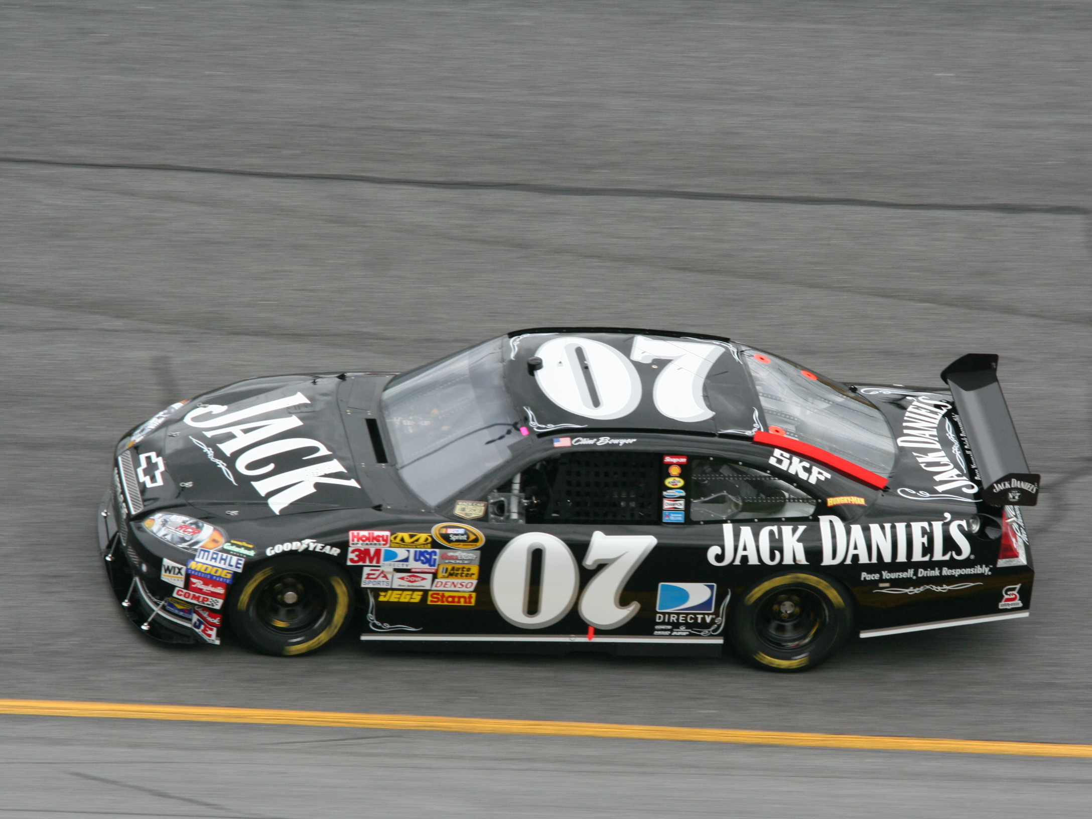 Shot by The Daredevil at Daytona during Speedweeks 2008Clint Bowyer Jack Daniels Chevy Impala